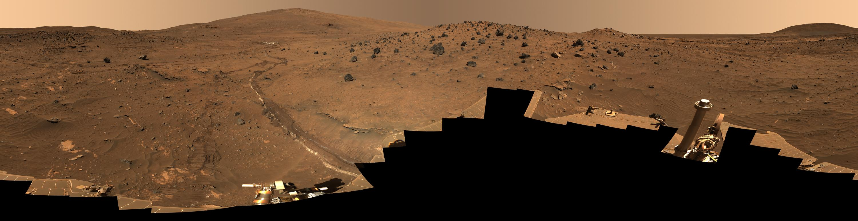 This 360-degree view, called the "McMurdo" panorama, comes from the panoramic camera (Pancam) on NASA's Mars Exploration Rover Spirit.